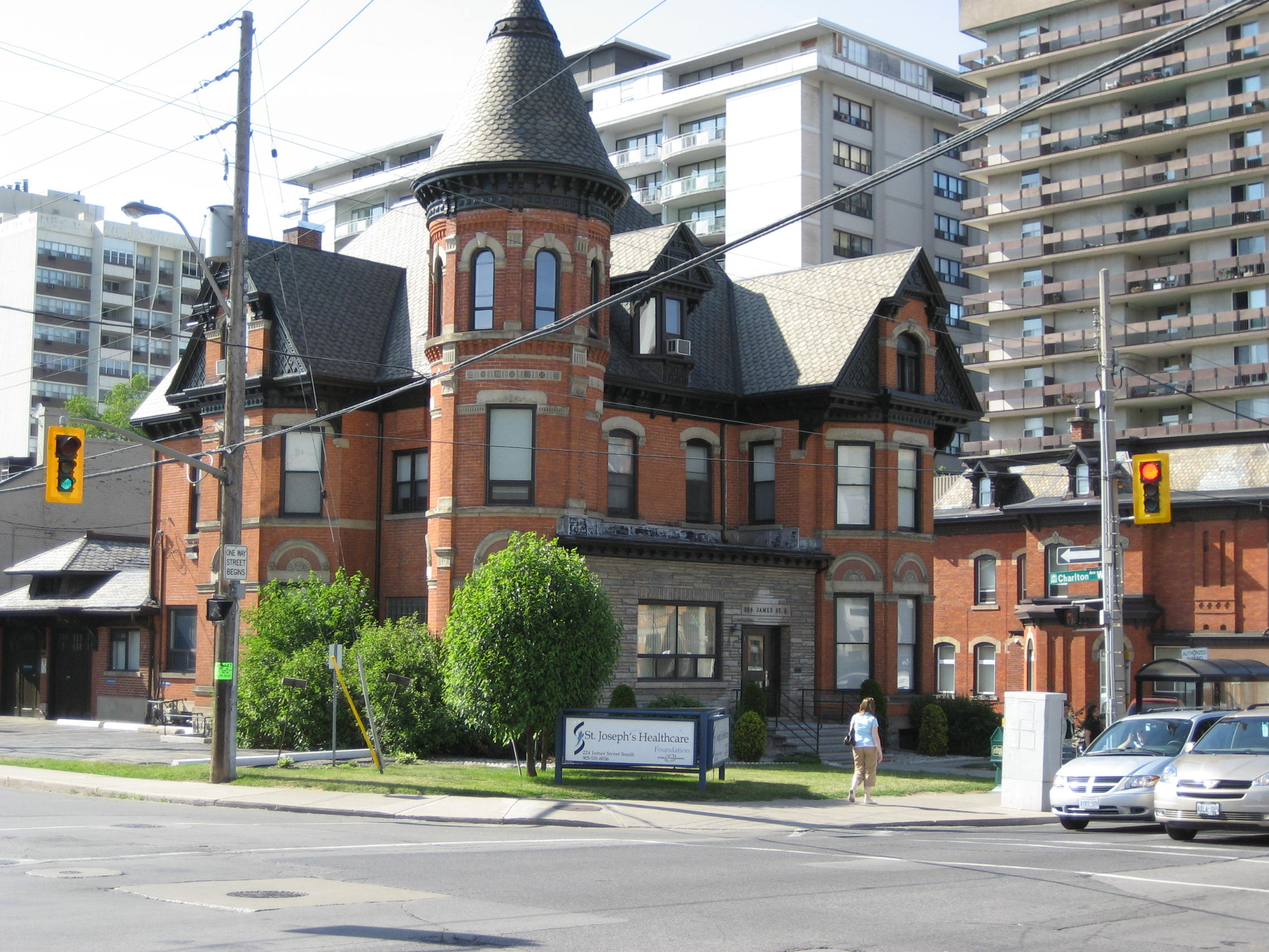 James Street South, downtown Hamilton, Ontario